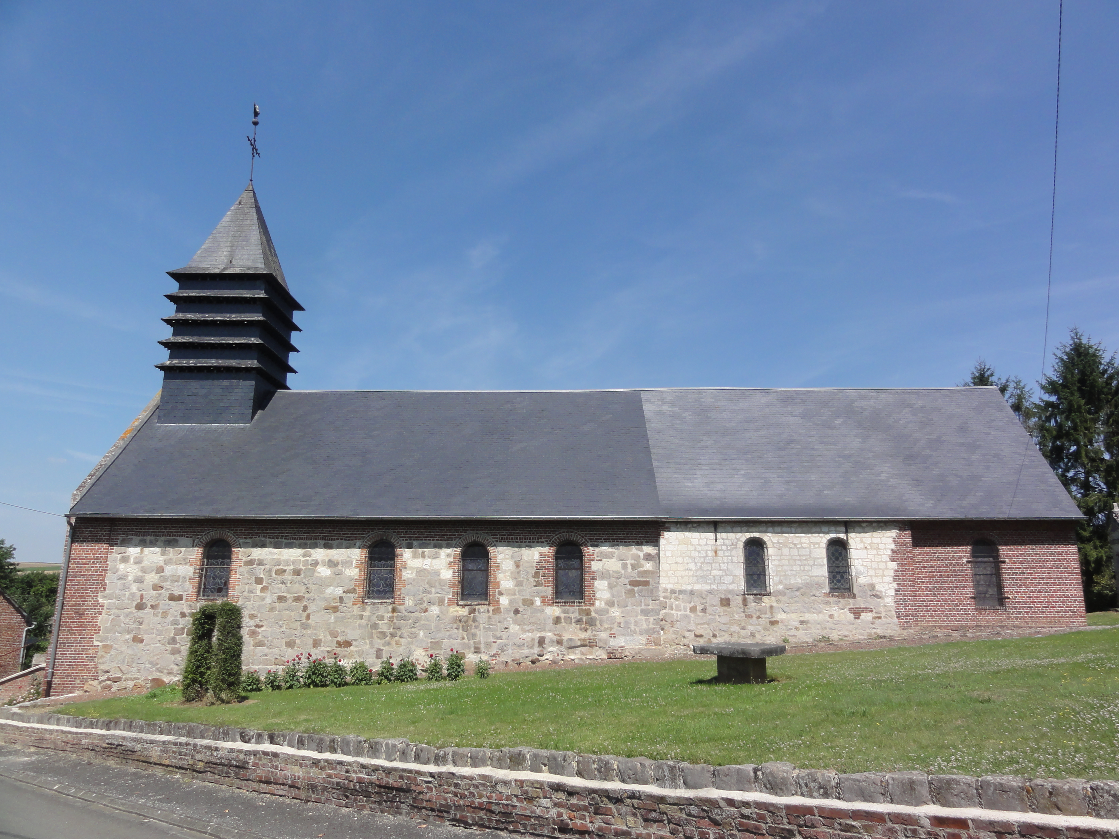 Monceau-le-Neuf-et-Faucouzy (Aisne) église